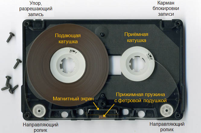 Inside good ole tape: part description in Russian.